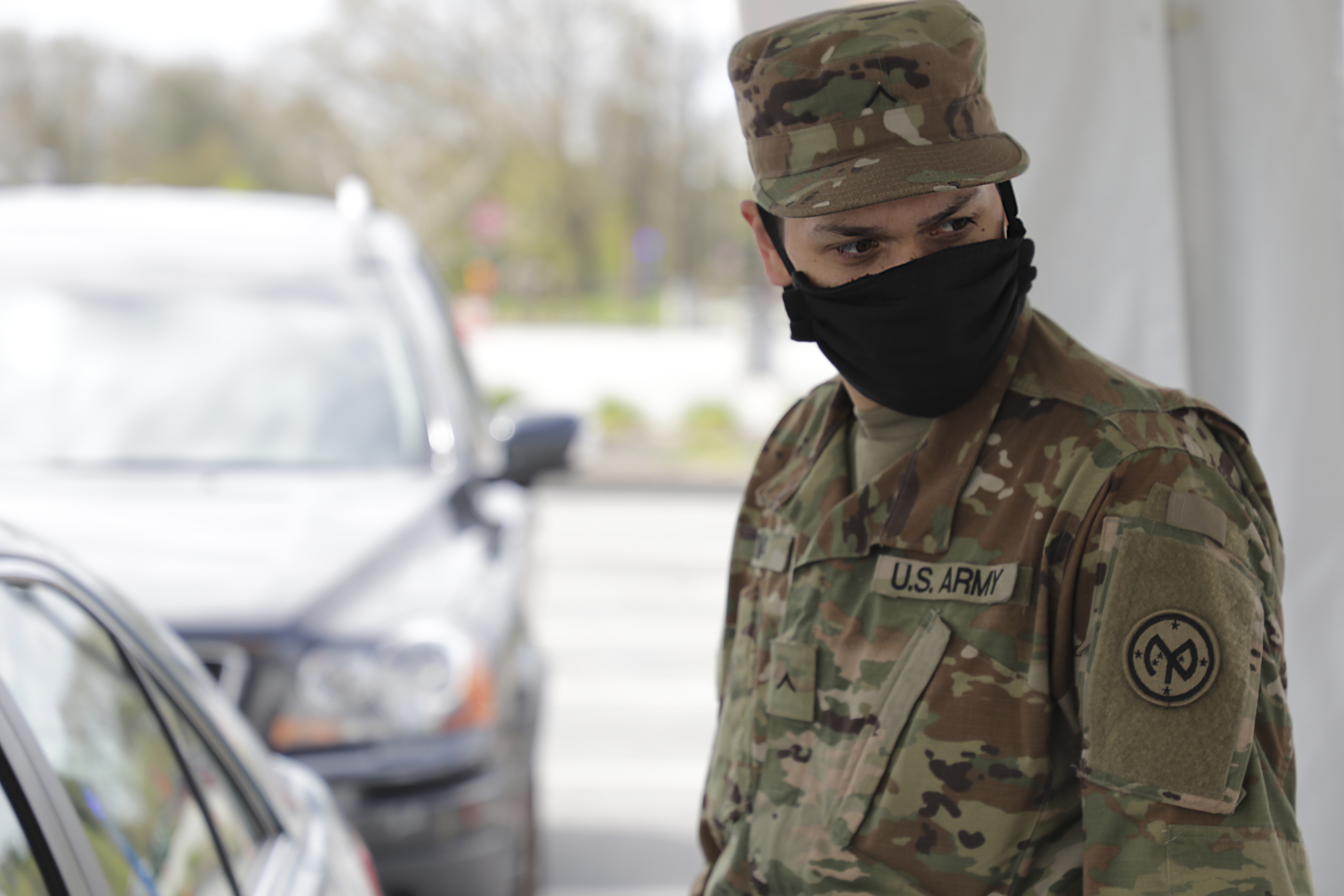 Soldiers from the Rhode Island National Guard performing multiple tasks at a COVID-19 test site located at Rhode Island College, North Providence, RI. The Soldiers set up mobile test sites and used them for the first time to test residents. Soldiers and Airmen of the Rhode Island National Guard have been activated by Rhode Island Governor Gina Raimondo to support this historic fight against a COVID-19. (Air National Guard Photo by Staff Sgt. John Vannucci)